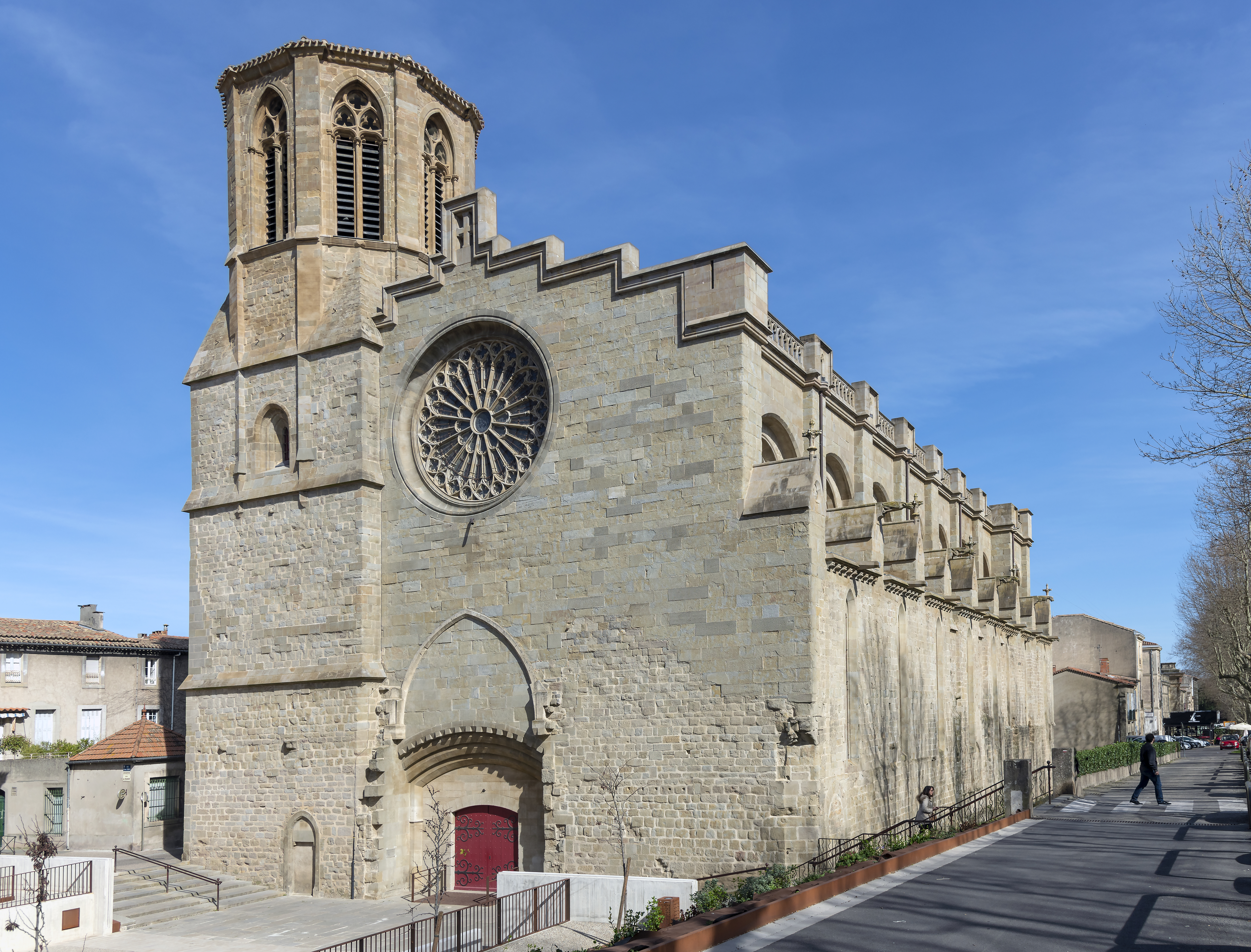 Facade of Carcassonne Cathedral, Aude France